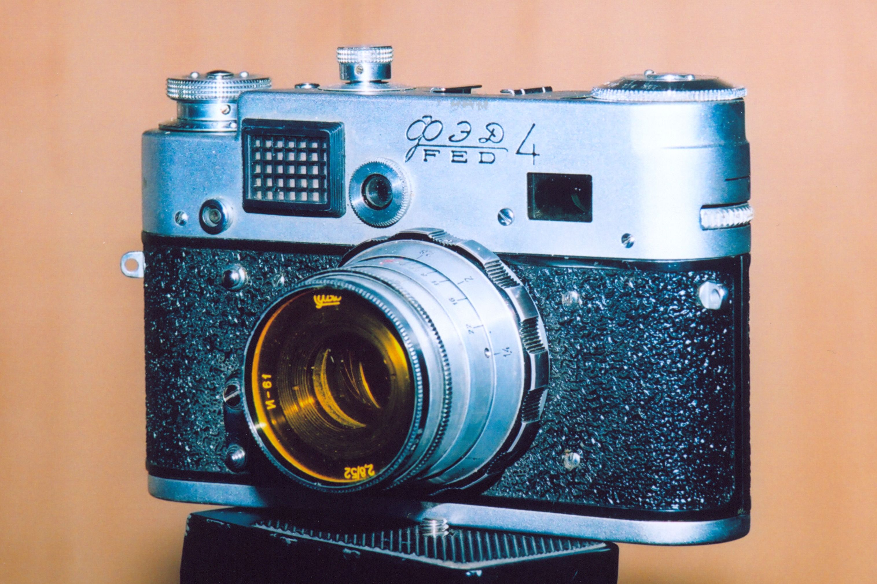 Фотоаппарат ФЭД-4 бескурковый